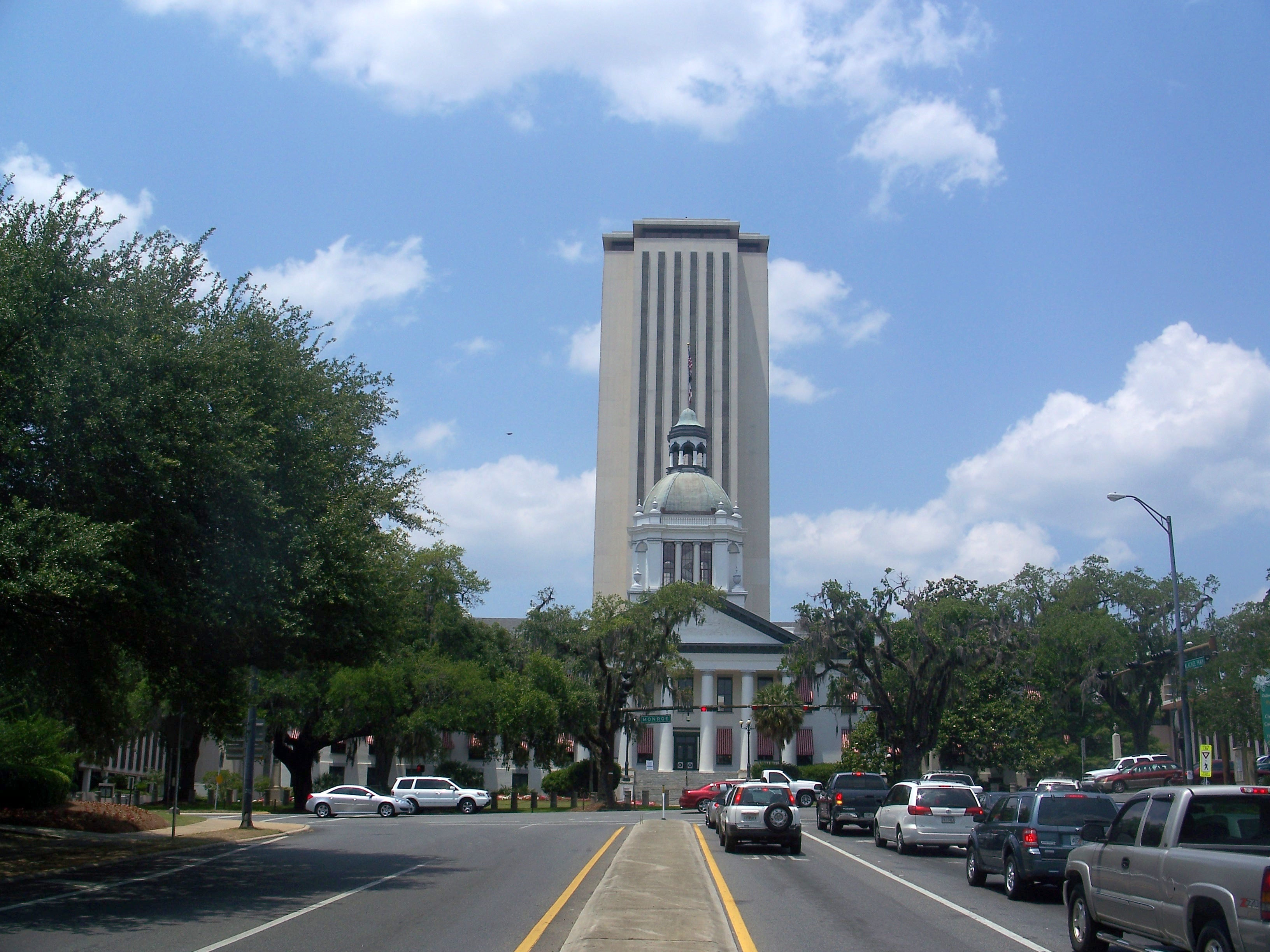 Tallahassee, Florida: Florida State Capitol: Old and new buildings